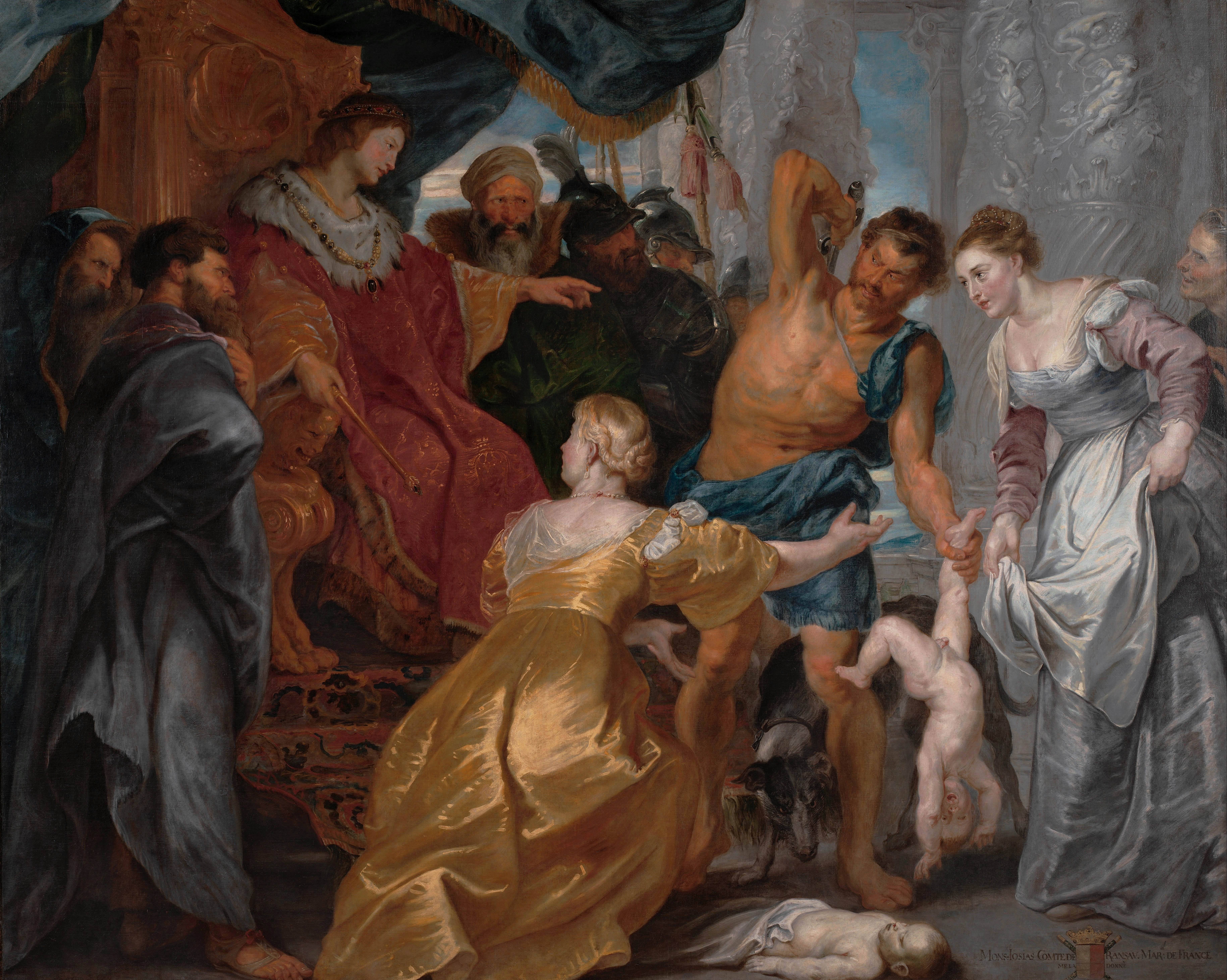 Workshop of Peter Paul Rubens. The original was at Brussels, and was lost there in a fire.